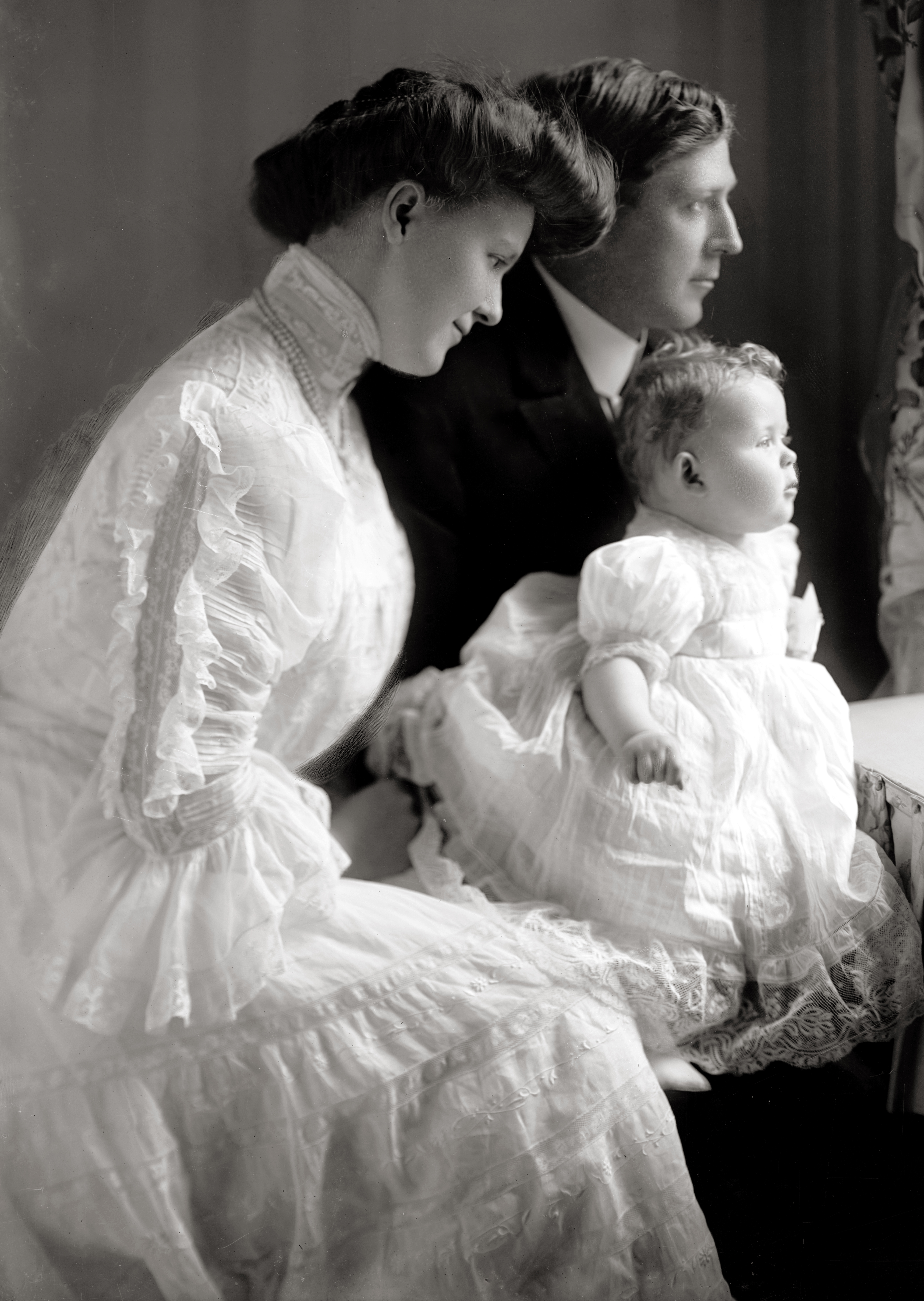 Representative J. Swagar Sherley (D-KY) poses with his wife, Mignon, and their firstborn, Olive (b. June 13, 1907).